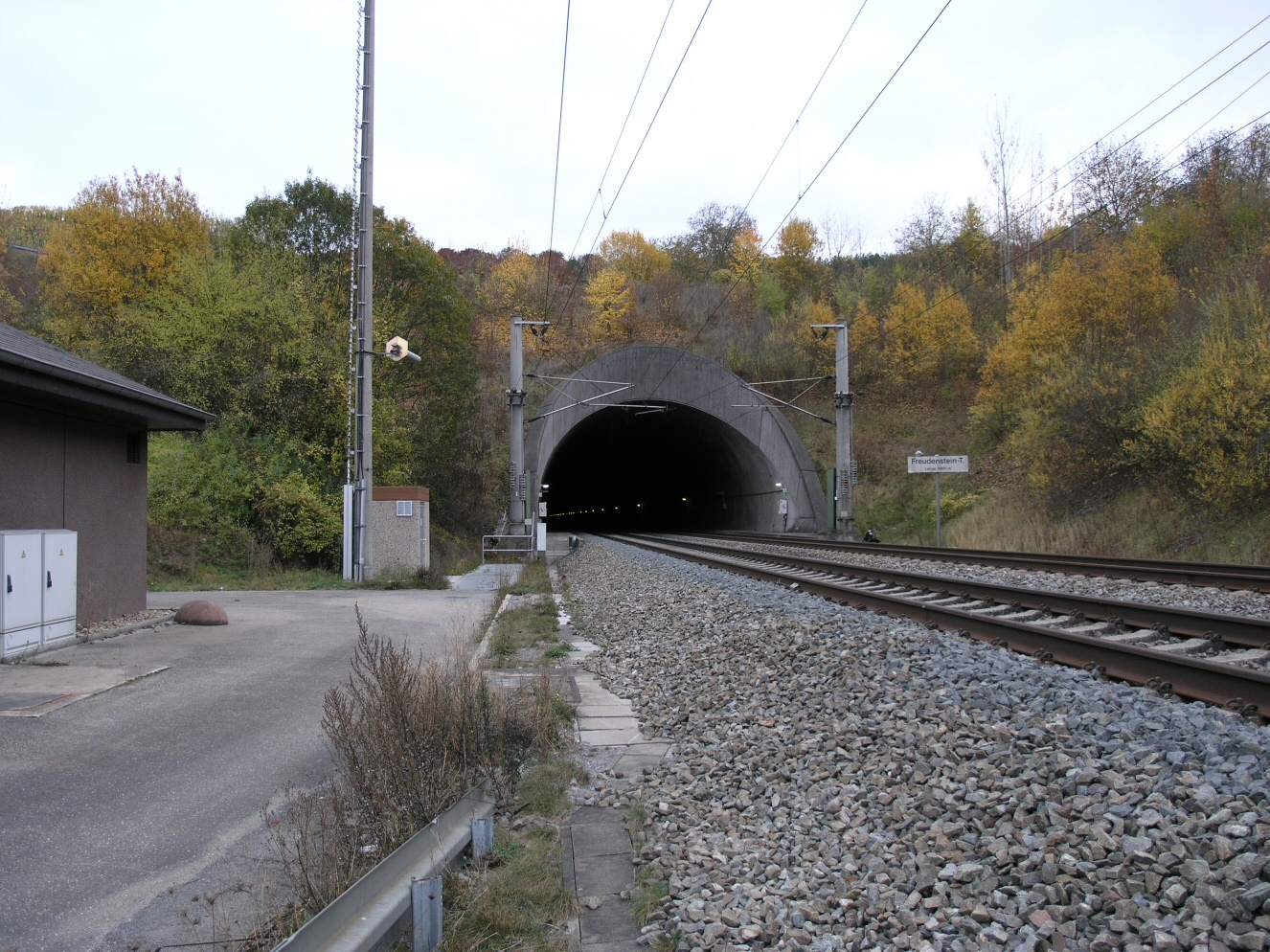 Western entrance of the Freudensteintunnel, part of the high-speed railway line Mannheim-Stuttgart